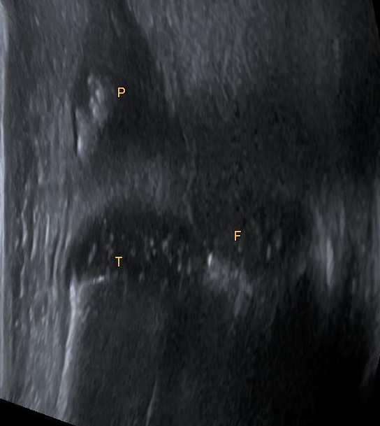 Sonogramm of same neonate in similar orientation, P = patella, F = femoral, T = tibial epiphysis